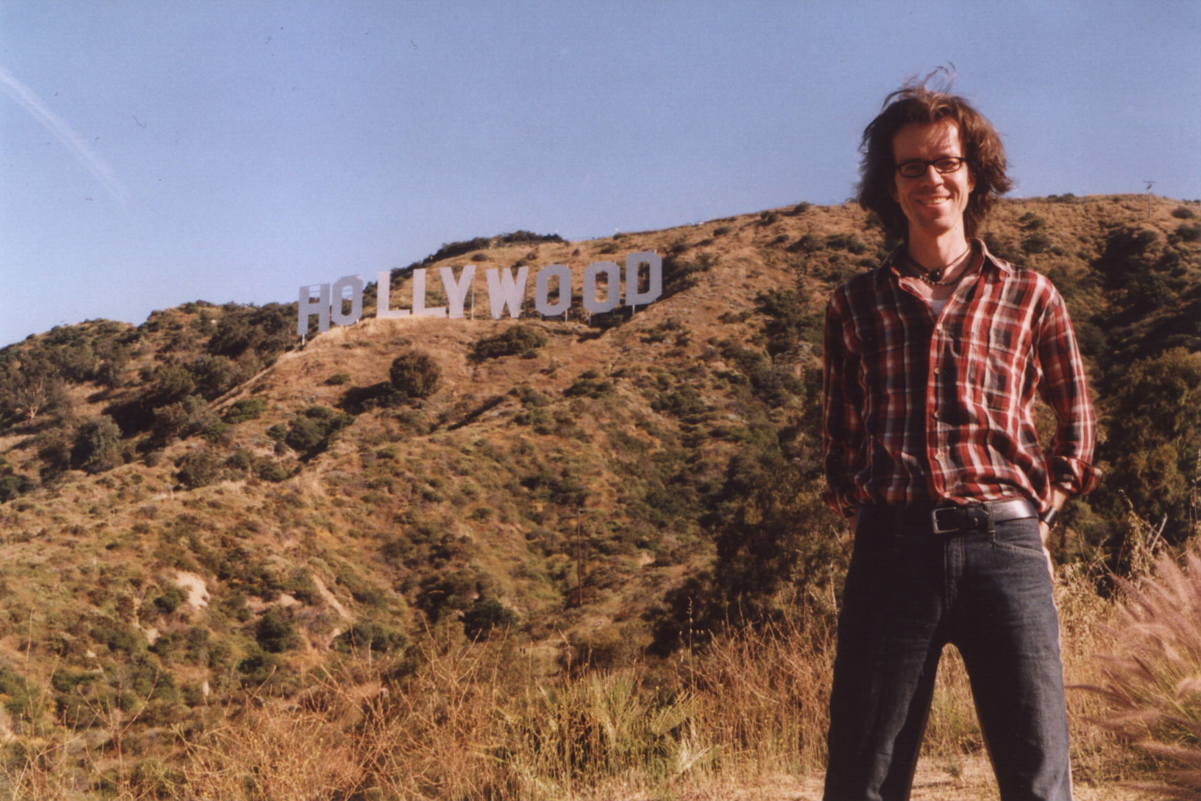 Selfportrait Jens Winter, actor